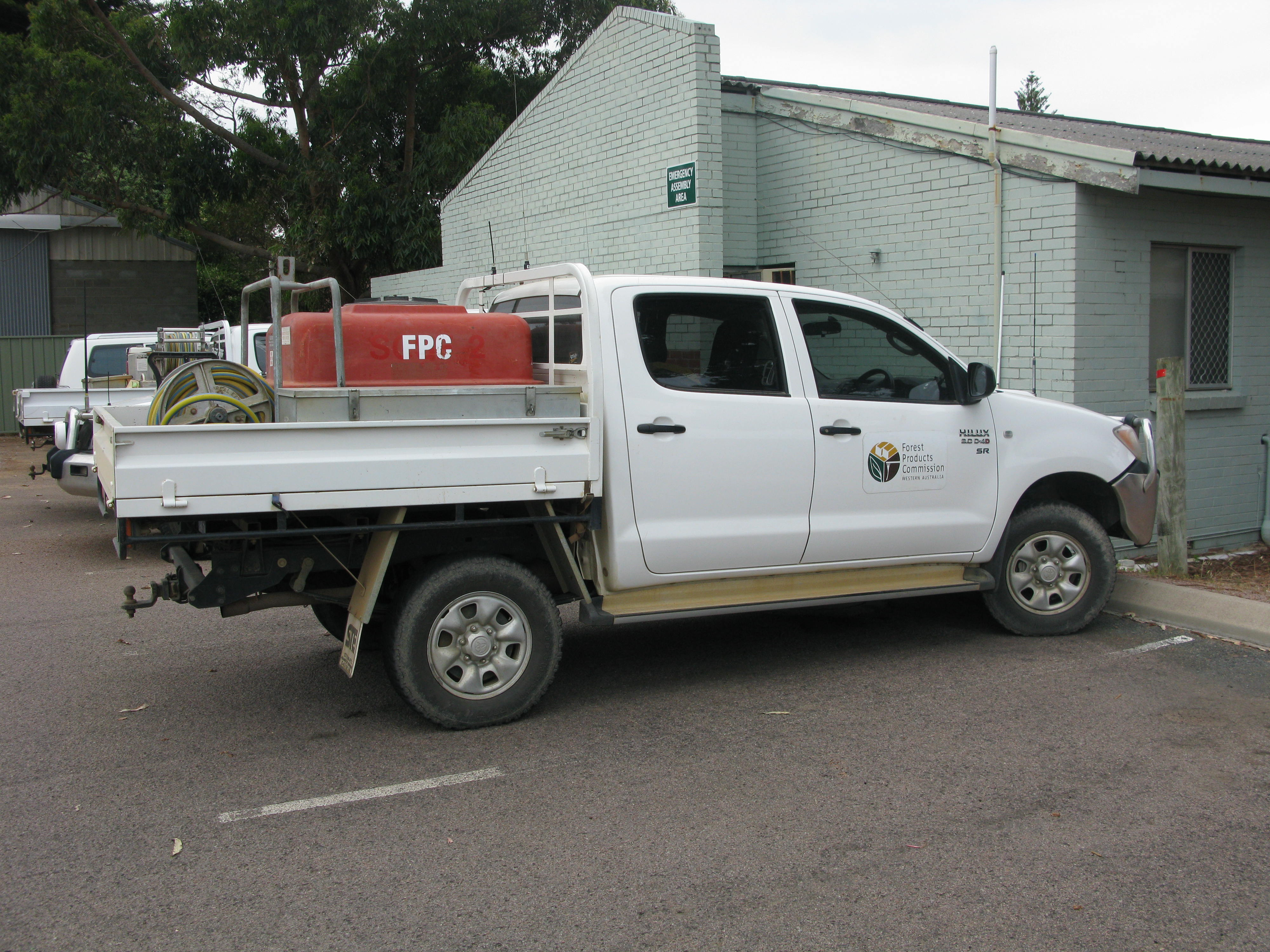 Toyota HiLux 3D D4D with Light Unit Pumper, Western Australian Forest Products Commission, Esperance, November 2009.